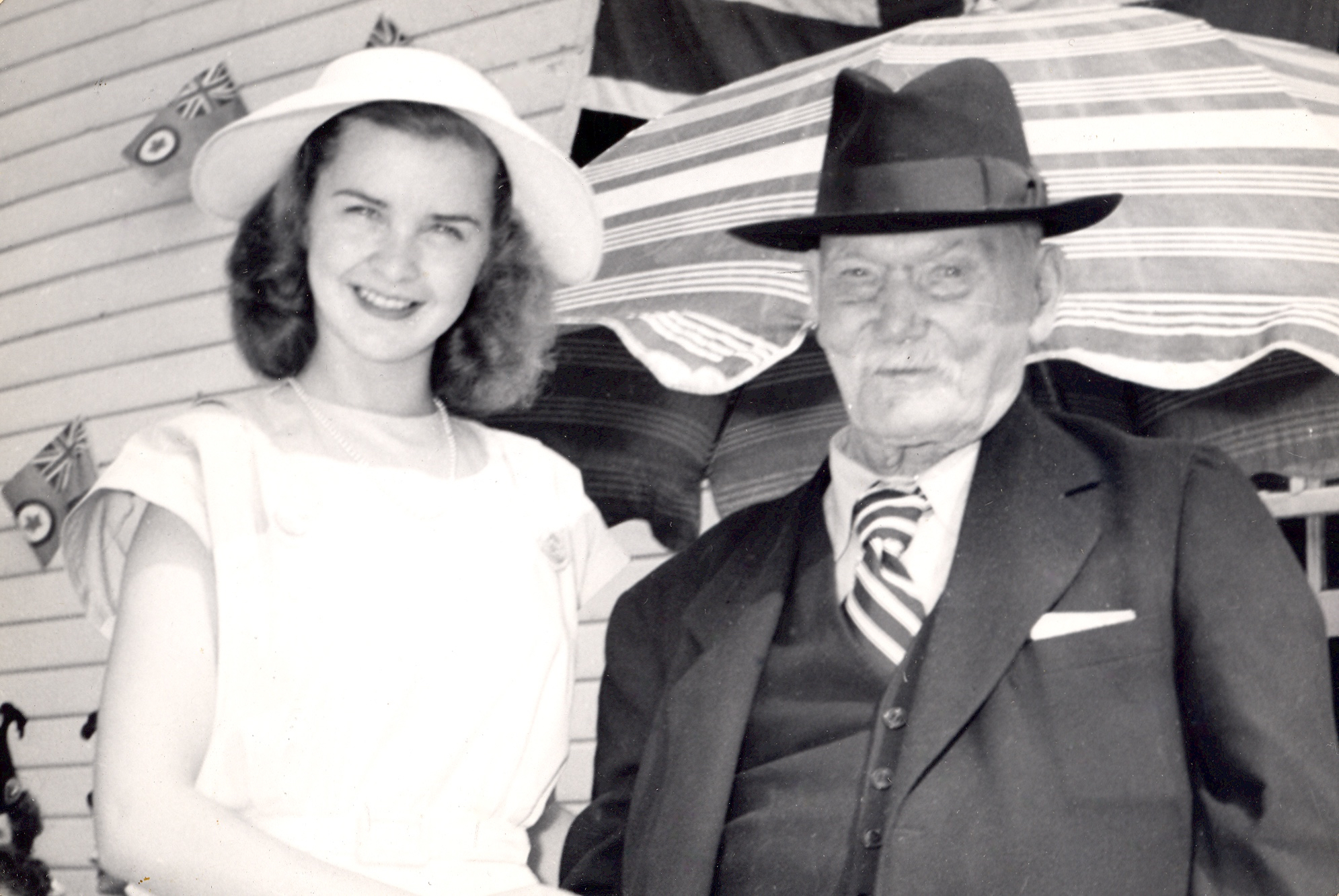 This photo was taken at the Lumbermen's Picnic in Cloyne in 1947. R.W. Kimberly was a major sponsor of the Picnic and owned Kimmerly Lumber in Napanee. The photo was taken in front of the Barrie Hall in Cloyne.